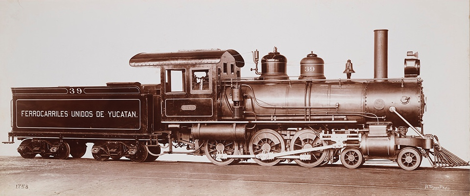 Title: [Ferrocarriles Unidos De Yucatan, No. 39] Creator: H. Tryon Photo Date: ca. 1902-1905 Part Of: Baldwin Locomotive Works Physical Description: 1 photographic print: albumen; on linen mount; 31 x 74 cm File: ag1986_0393x_7_4_1758_opt.jpg Rights: Please cite Southern Methodist University, Central University Libraries, DeGolyer Library when using this image file. A high-quality version of this file may be obtained for a fee by contacting . For more information, see: View Railroads - Photographs, Manuscripts, and Imprints